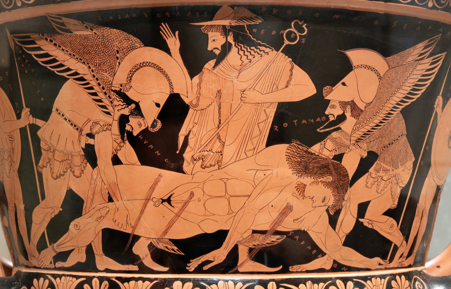 Sarpedon’s body carried by Hypnos and Thanatos (Sleep and Death), while Hermes watches. Side A of the so-called “Euphronios krater”, Attic red-figured calyx-krater signed by Euxitheos (potter) and Euphronios (painter), ca. 515 BC. H. 45.7 cm (18 in.); D. 55.1 cm (21 11/16 in.), Necropolis of Caere (Cerveteri). Formerly in the Metropolitan Museum of Art, New York (L.2006.10); Returned to Italy and exhibited in Rome as of January, 2008.